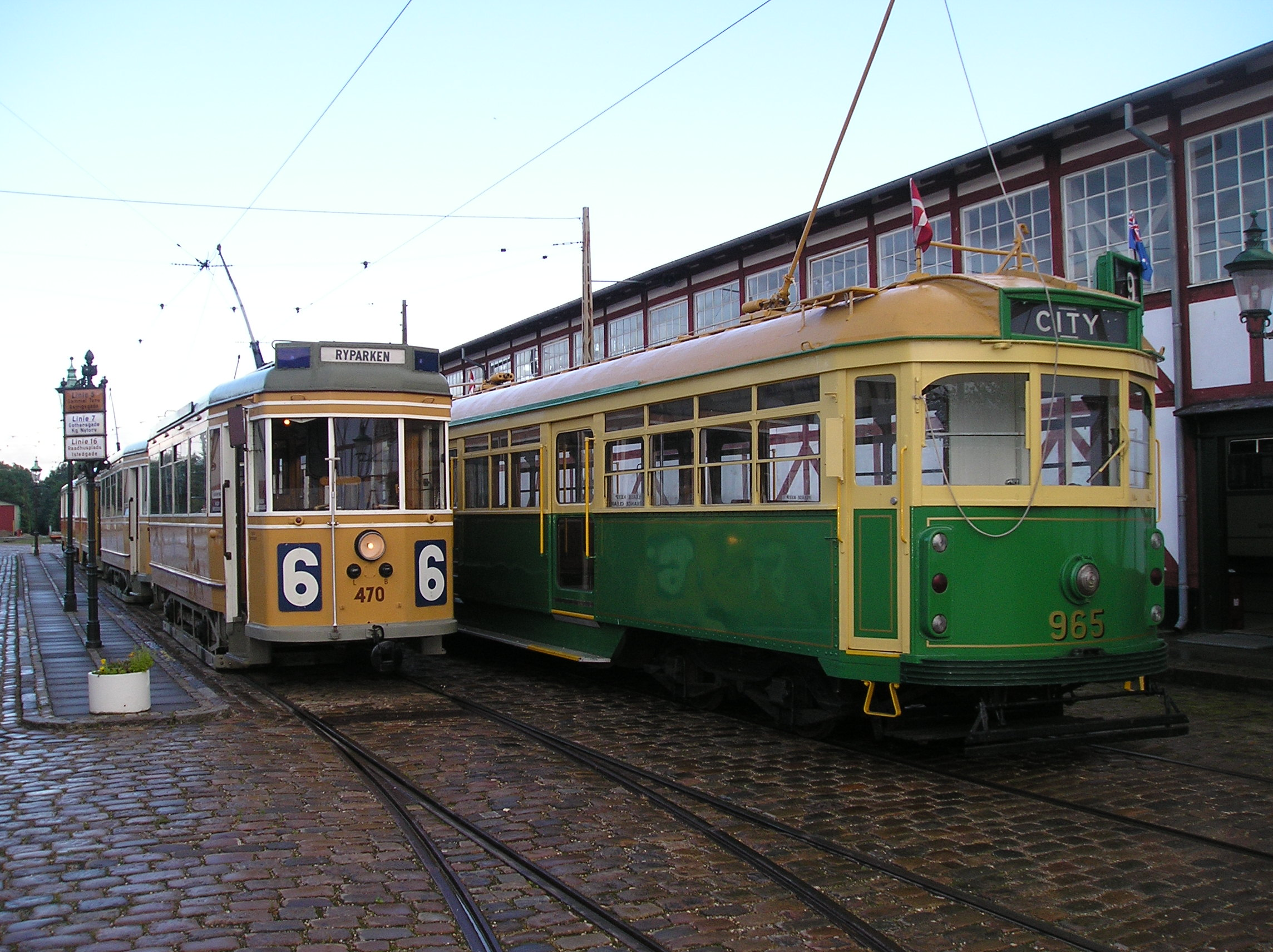 Old tram of Copenhagen, KS 470 from 1945, and old tram of Melbourne, M&MTB 965 from 1950, at Sporvejsmuseet Skjoldenæsholm in Denmark.